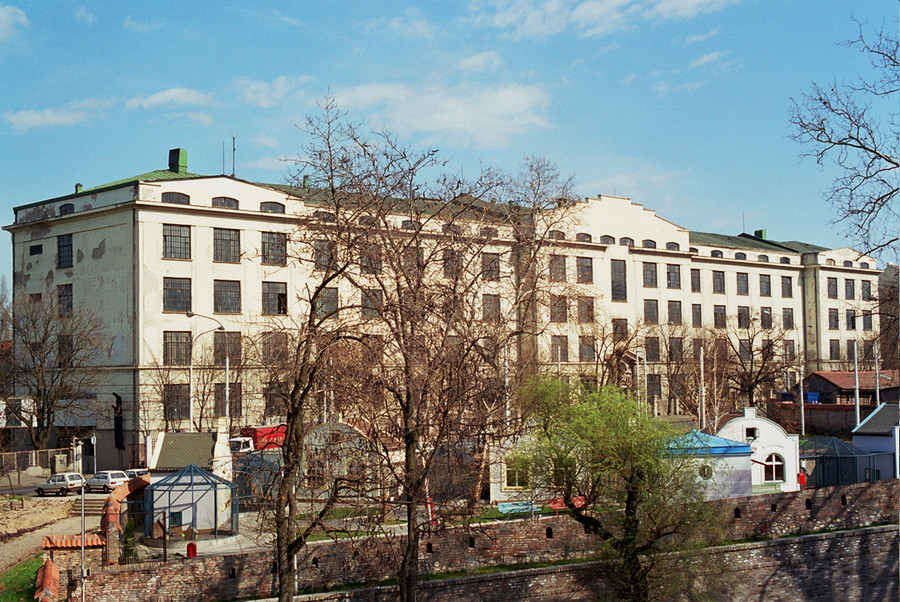 Factory Beko Srpski (latinica): Fabrika Beko